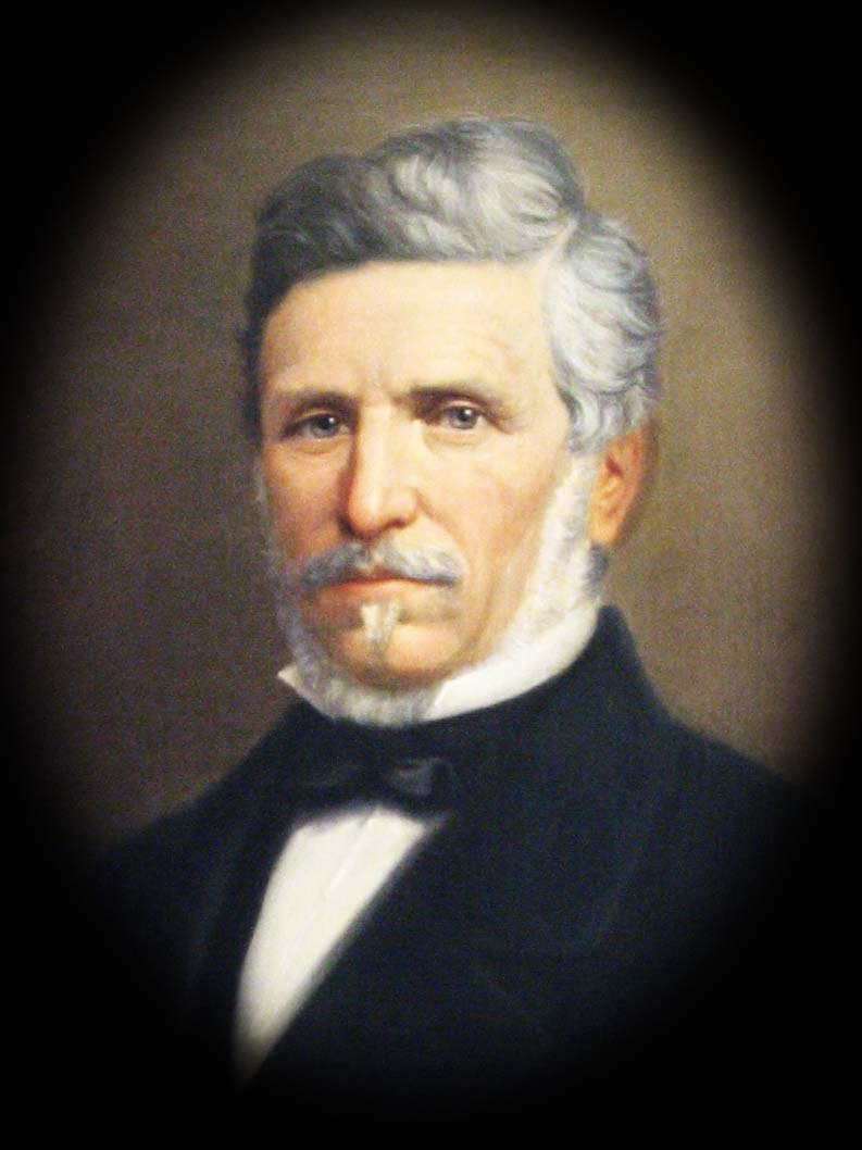 Louis-Henri Delarageaz-1876